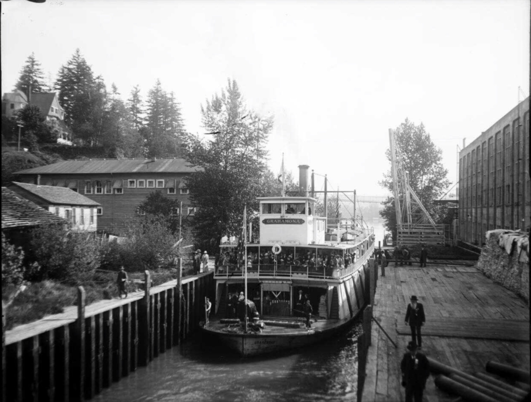 Stern-wheel steamboat Grahamona in the Willamette Falls locks, sometime between 1912 and 1918.